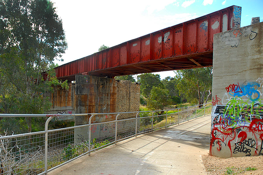 gawler_river_railway_bridge_roseworthy_line_1_10may2012_pb108